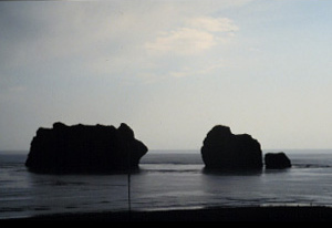 Photo of the Oya-ko rock formation off the coast of Samani. Author: Michael Shea (wikiuser imars) Date: between 1991 and 1993